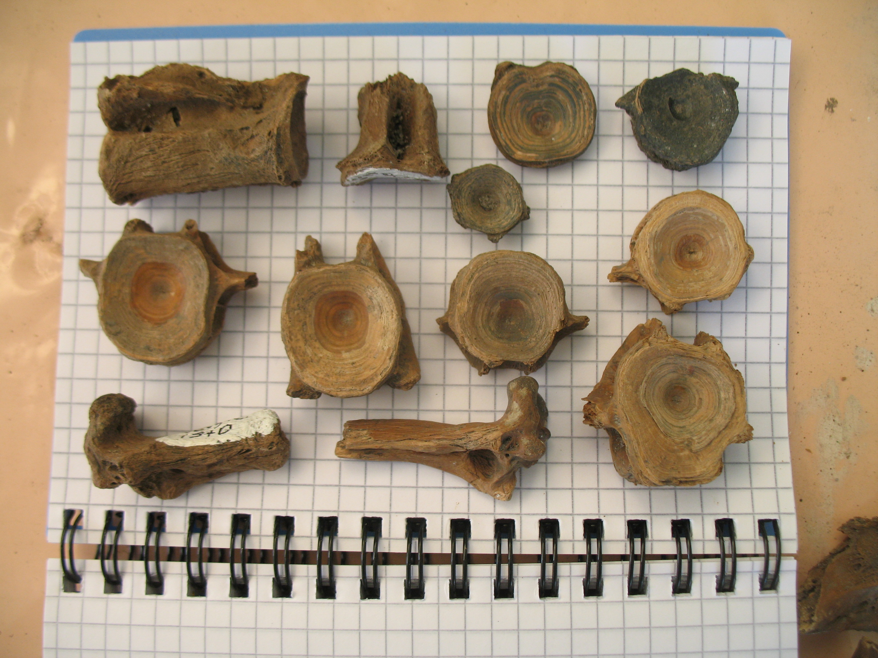 The bones of catfish were found during archaeological excavations of Neolithic settlements (5000 BC). The bones studied arheozoologist Ph.D. Ye.Yanish, reconstructed the length and weight of the fish.